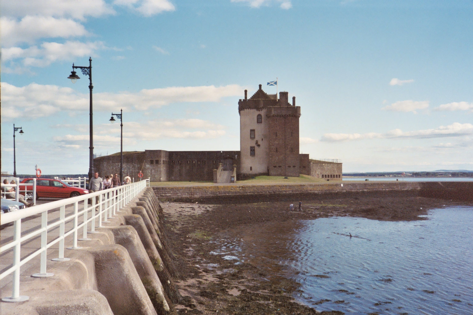 View of Broughty Castle in Dundee.